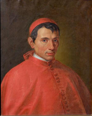 Portrait of cardinal Charles Januarius Acton (1803-1847)